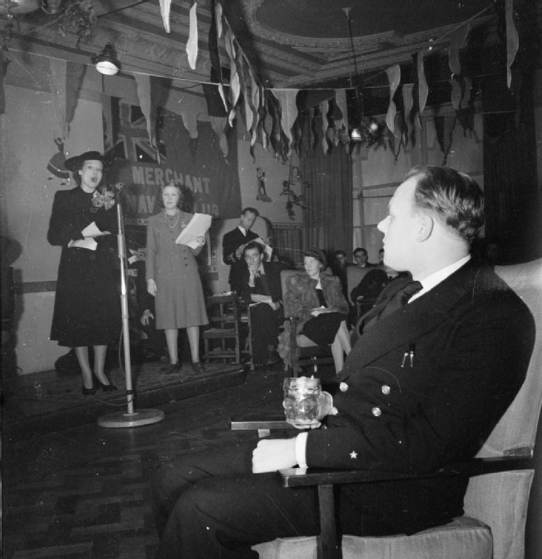 A Merchant Seaman Comes To Town- the work of the Merchant Navy Club, Piccadilly, London, 1942 Richard Pates, 25 year old Merchant Seaman, enjoys a glass of beer whilst listening to Adele Dixon sing at the Merchant Navy Club in Piccadilly. Behind Adele, the hostess, Doris Hare, can be seen, running order in hand. The room has an ornate ceiling and brightly coloured bunting has been strung around the room. Several other people can be seen listening to the performance.